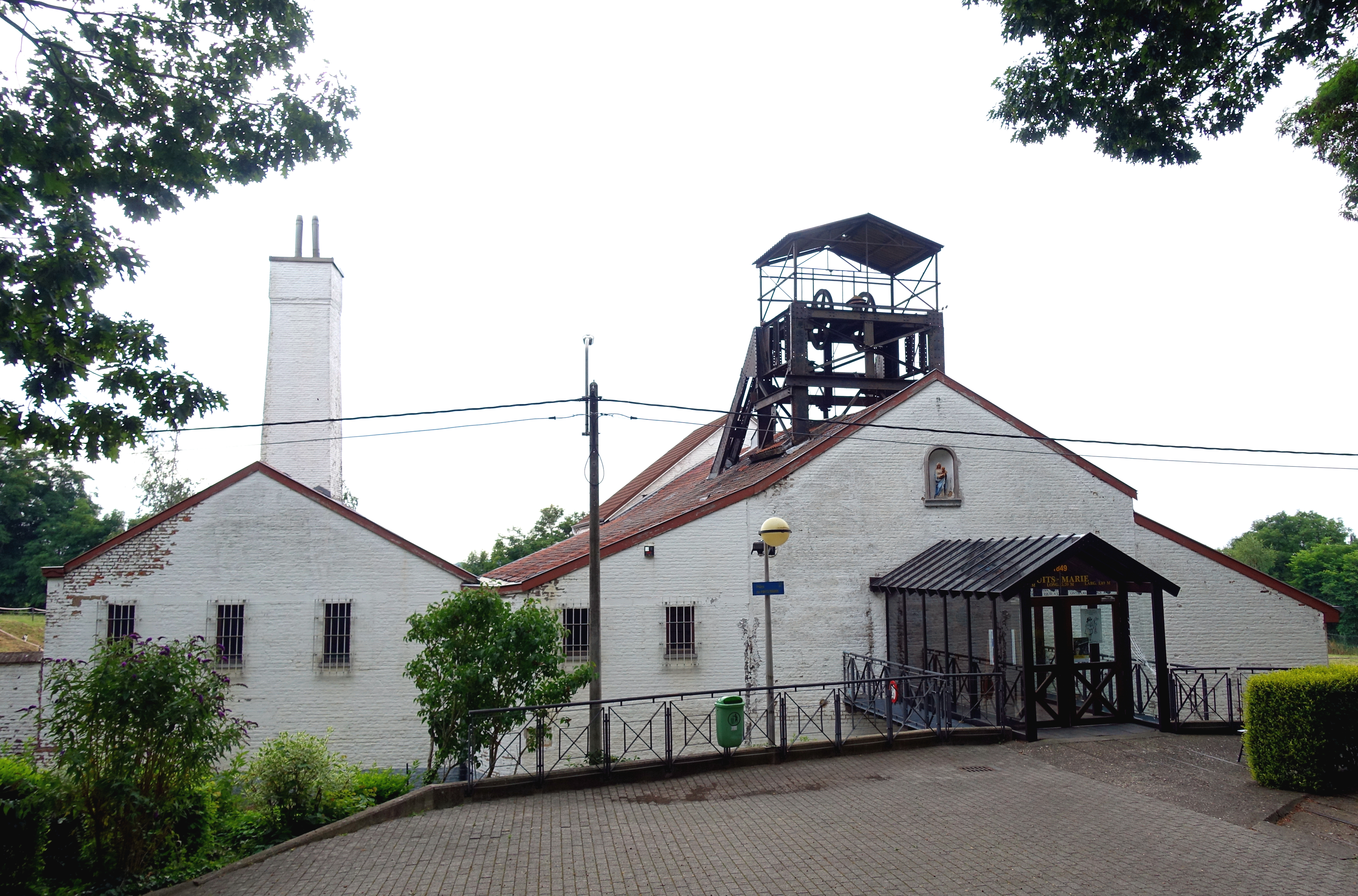 Old coal mine of Blegny-Mine: puits Marie ( l'Espérance) digged in 1849, major pit until 1923